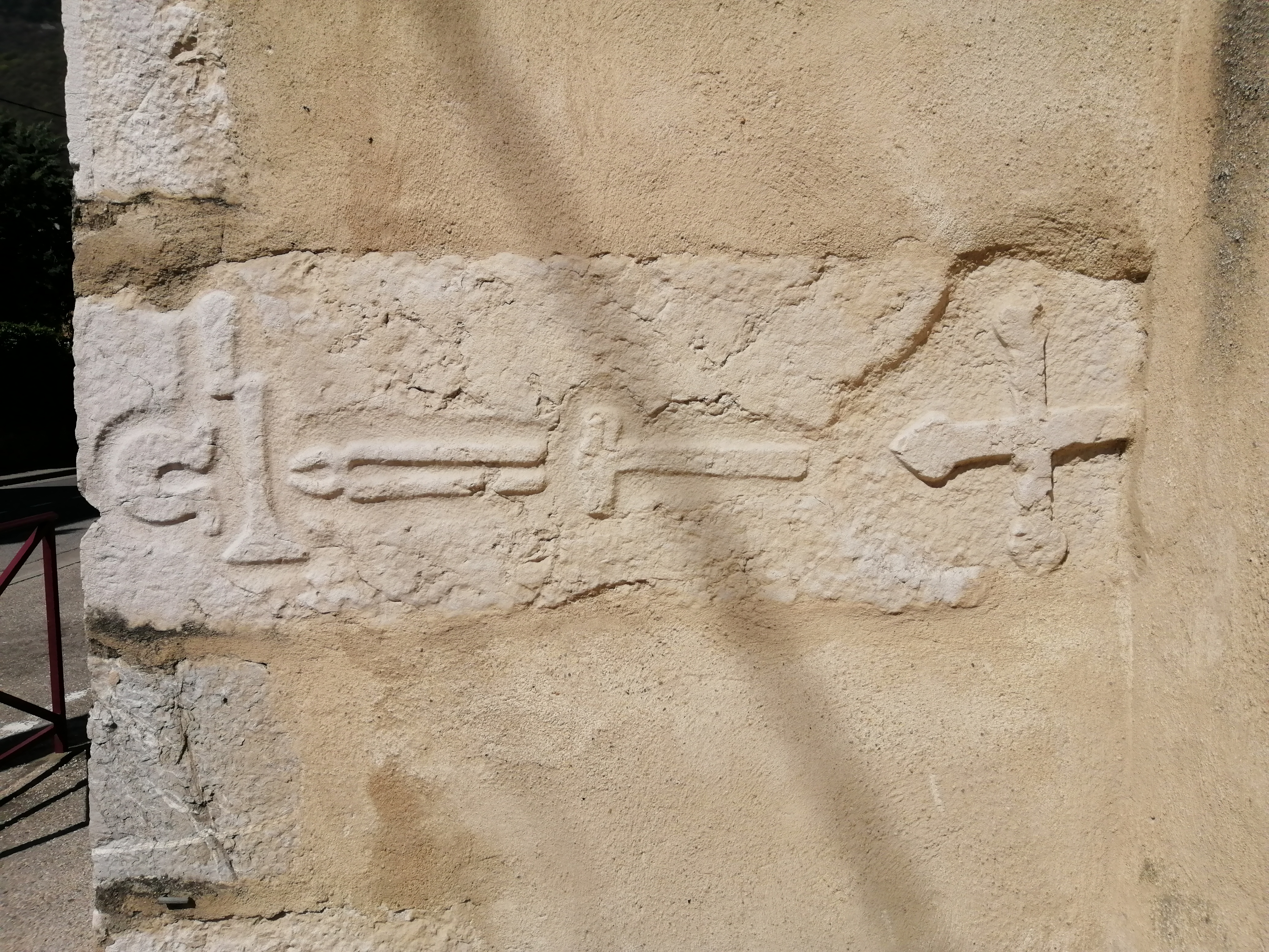 Funeral inscription on the bell tower of Saint-Jean-Baptiste Church (in Vif, France)